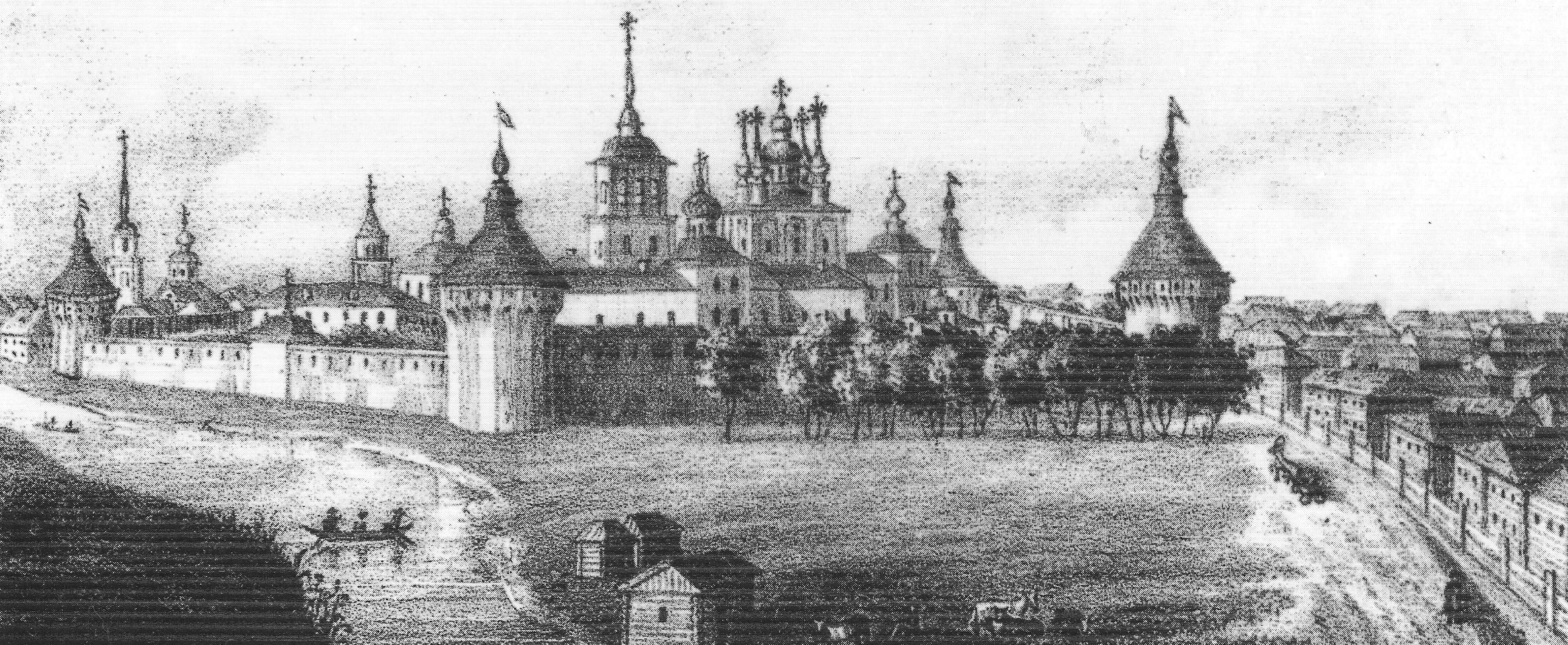 View of the Spaso-Prilutsky Monastery from an early 19th-cent. engraving.